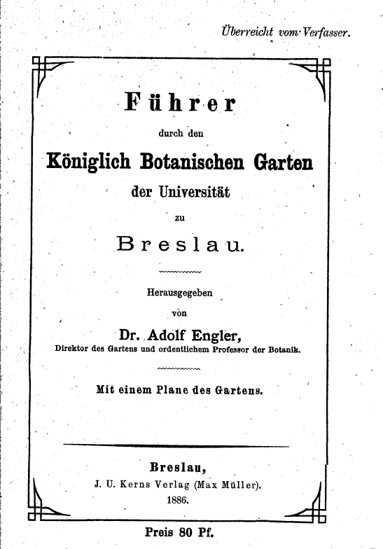 Front cover of - Engler, Adolf (1886). Führer durch den Königlich botanischen Garten der Universität zu Breslau